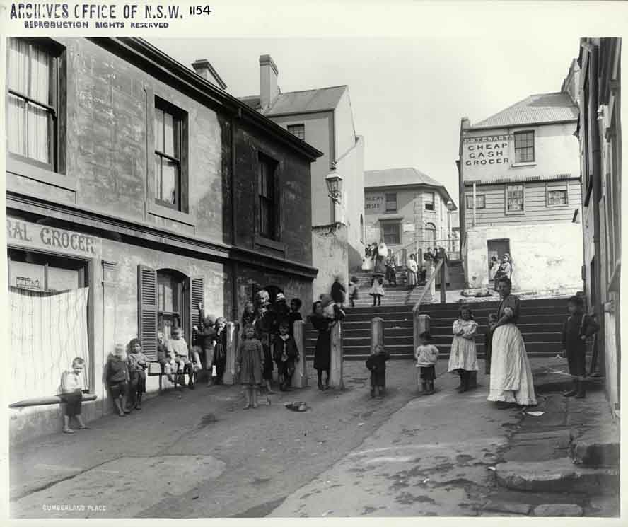 Cumberland Place, The Rocks [Rocks Resumption photographic survey] Dated: Year only 1901 Digital ID: 4481_a026_000228 Rights: We'd love to hear from you if you use our photos. Many other photos in our collection are available to view and browse on our website using Photo Investigator.